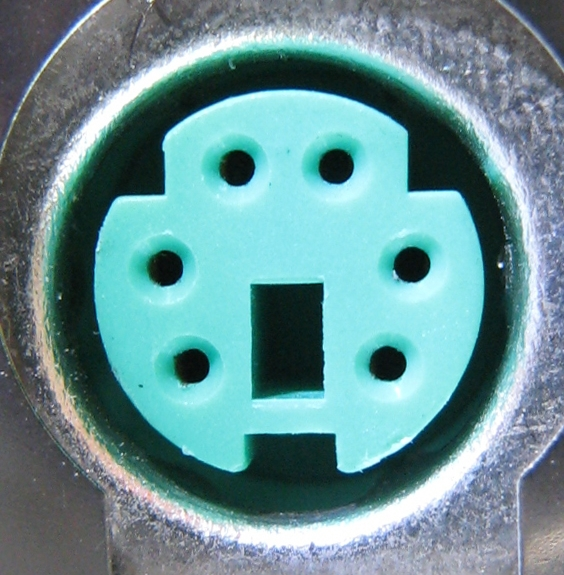 Close up to a female PS/2 connector